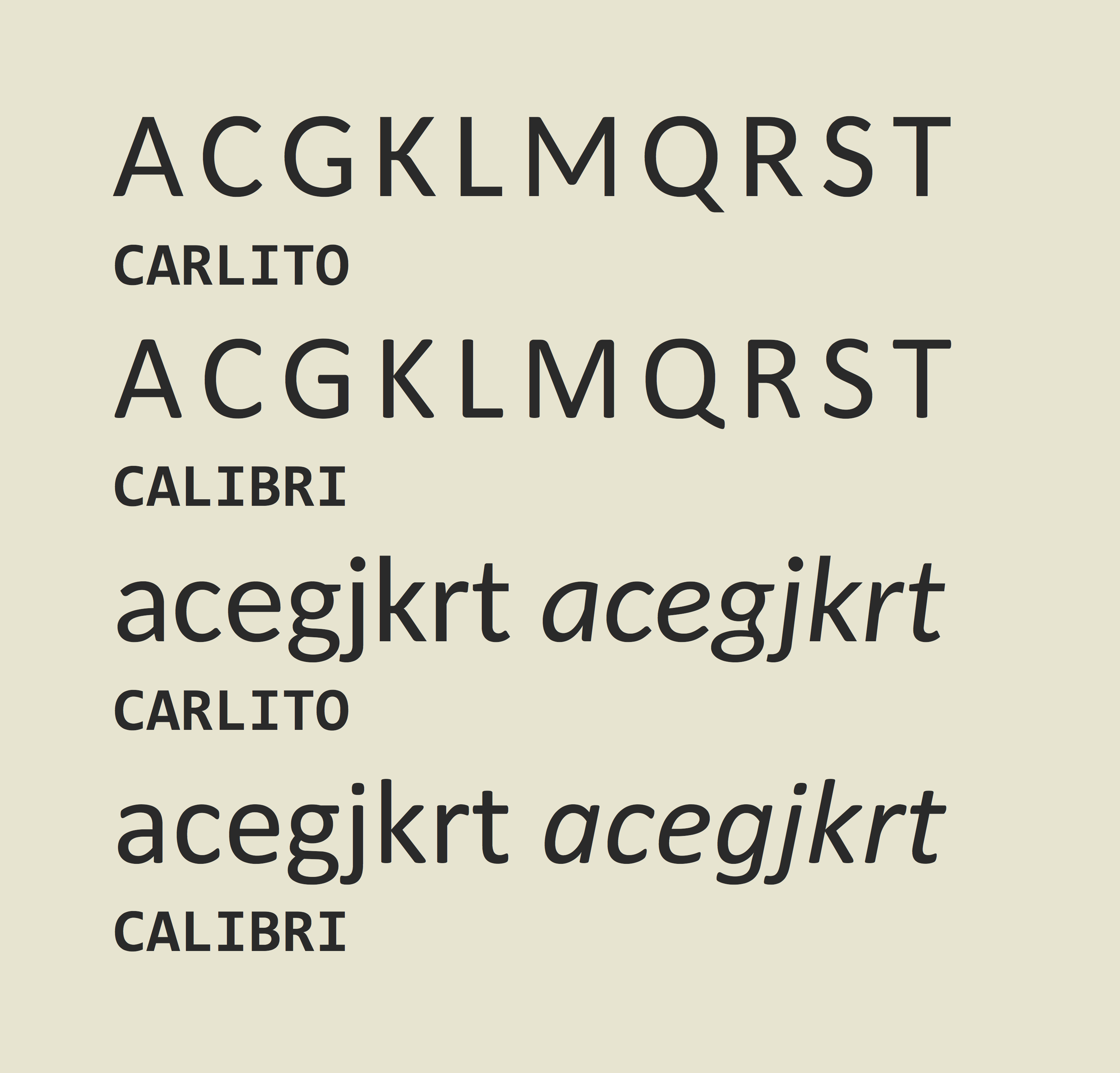 A comparison between Calibri and Carlito by Google.